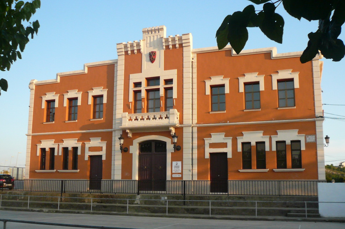 Town Hall of Avinyonet del Penedès in Avinyó Nou (Avinyonet del Penedès, Alt Penedès, Catalonia)